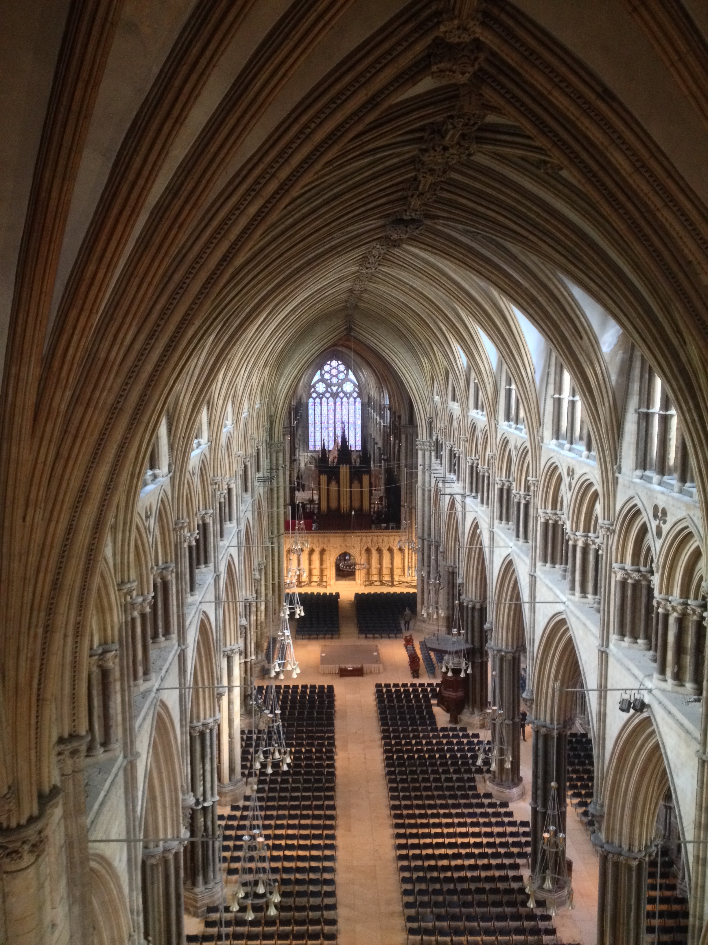 Lincoln Nave from West wall